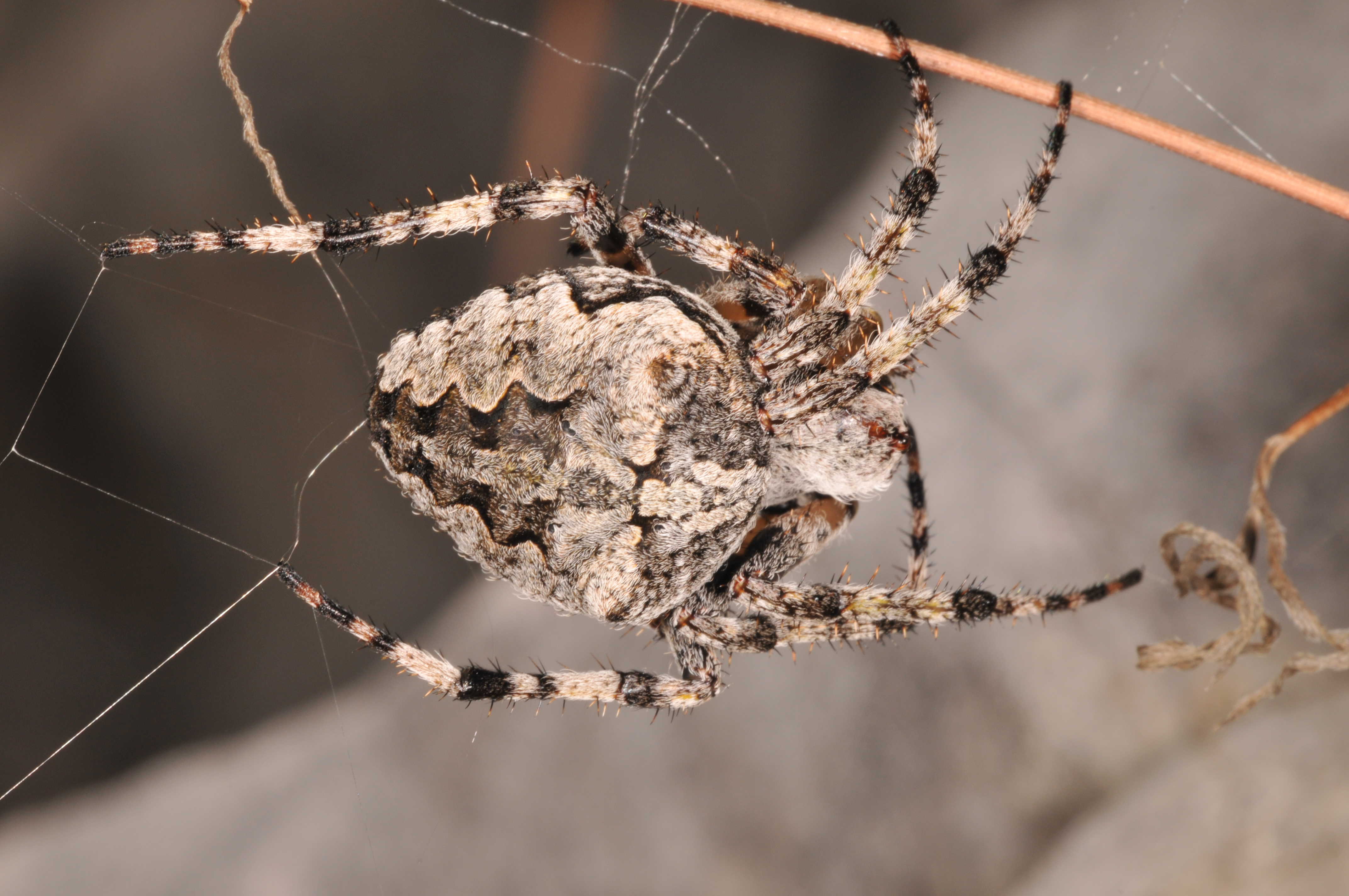 Araneus cf. circe (see also discussion), 26 mm, Croatia, Istria, Brsec( 15 km south Lovran, 45°10`23,80``N 14°13`37,25``E